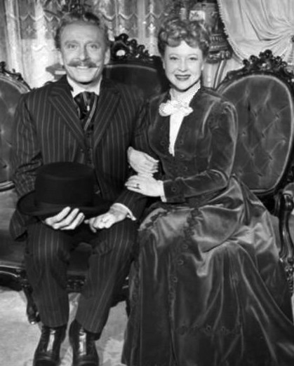 Publicity photo of Leon Ames and Lurene Tuttle from the television program 'Life With Father.